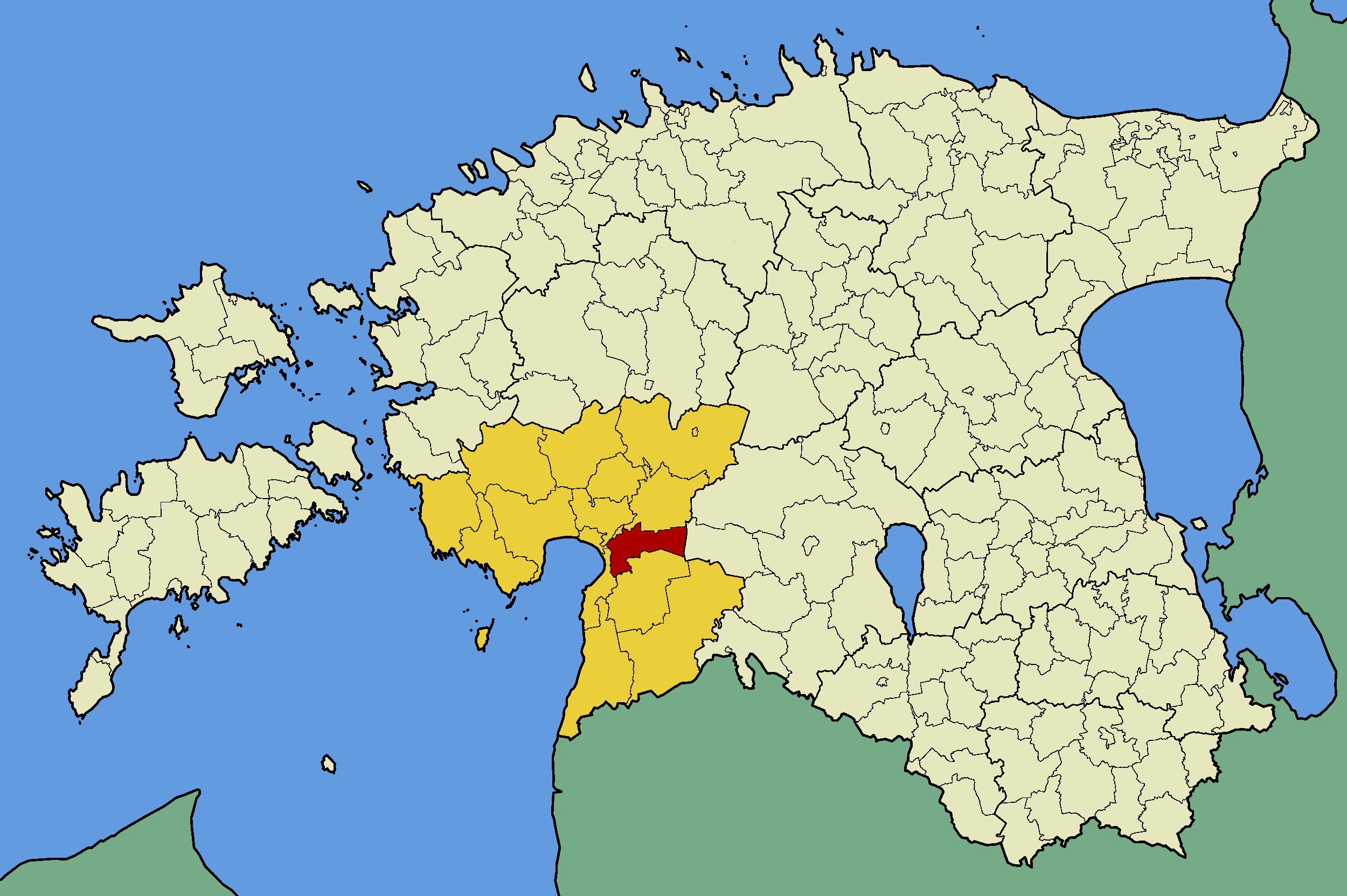 Map of Estonia with borders of municipalities (parishes). Pärnu county and Paikuse municipality emphasized.